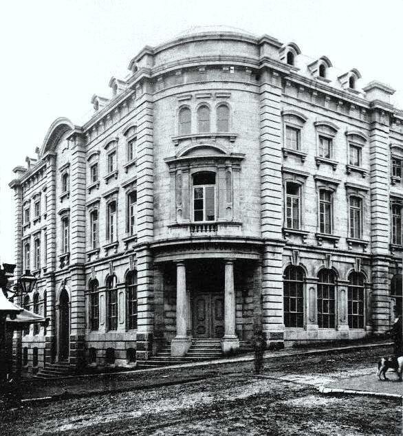 Photograph, Post Office, Quebec City, QC, 1872, William Notman (1826-1891), Silver salts on paper mounted on paper - Albumen process - 10 x 8 cm